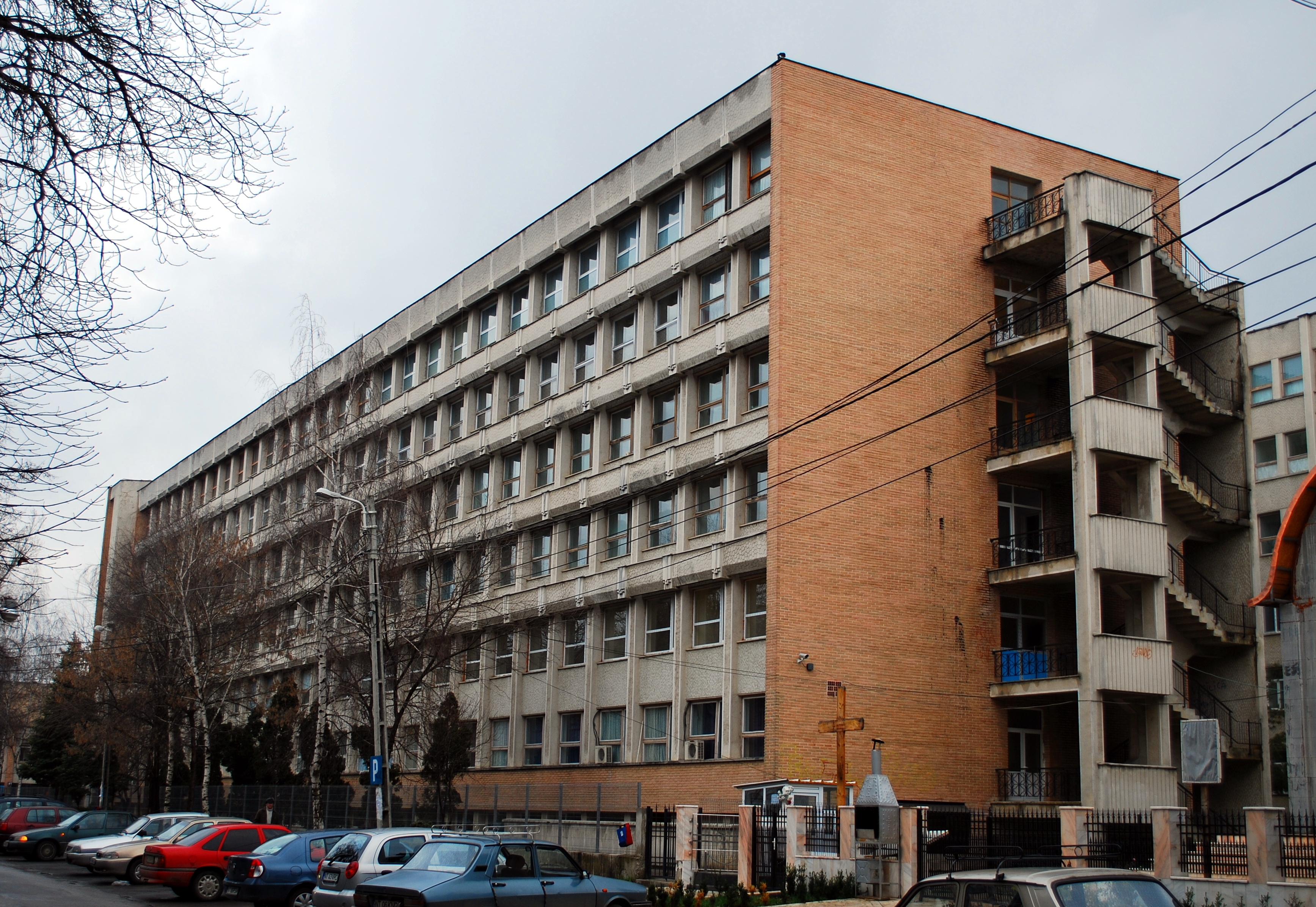 The hospital from Roman, Romania